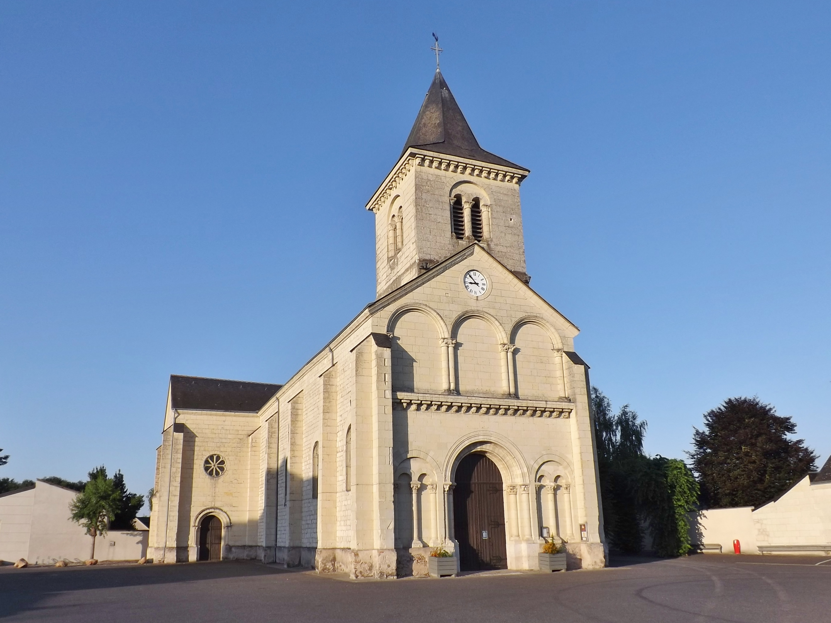 Sight of the north-western side of église Saint-Paul church of Vivy in Maine-et-Loire, France.